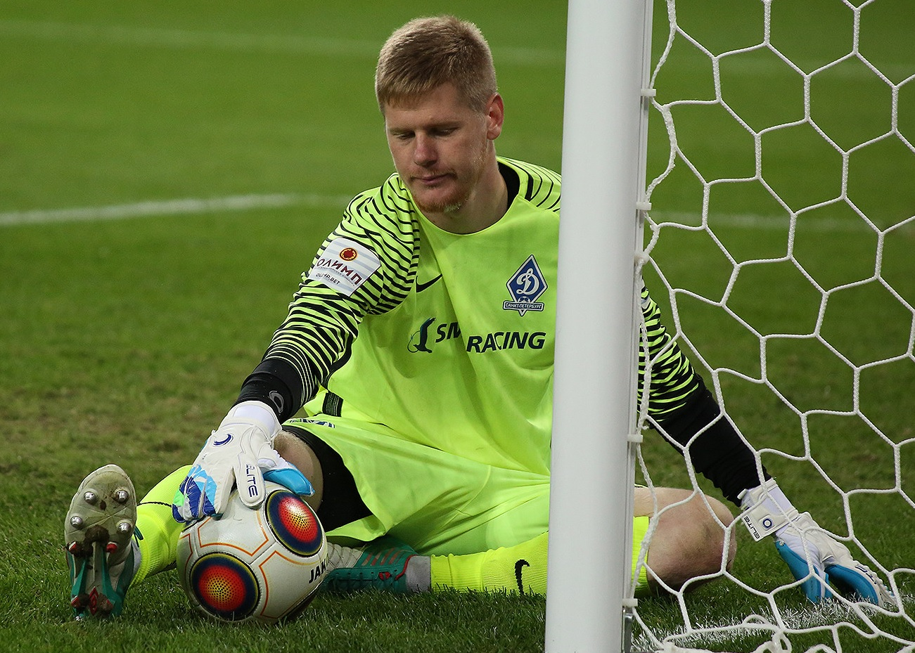 Denis Kniga with FC Dynamo Saint Petersburg in a Russian Cup game against FC Zenit Saint Petersburg.